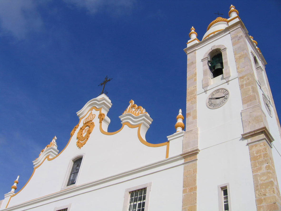 Portimão's church.